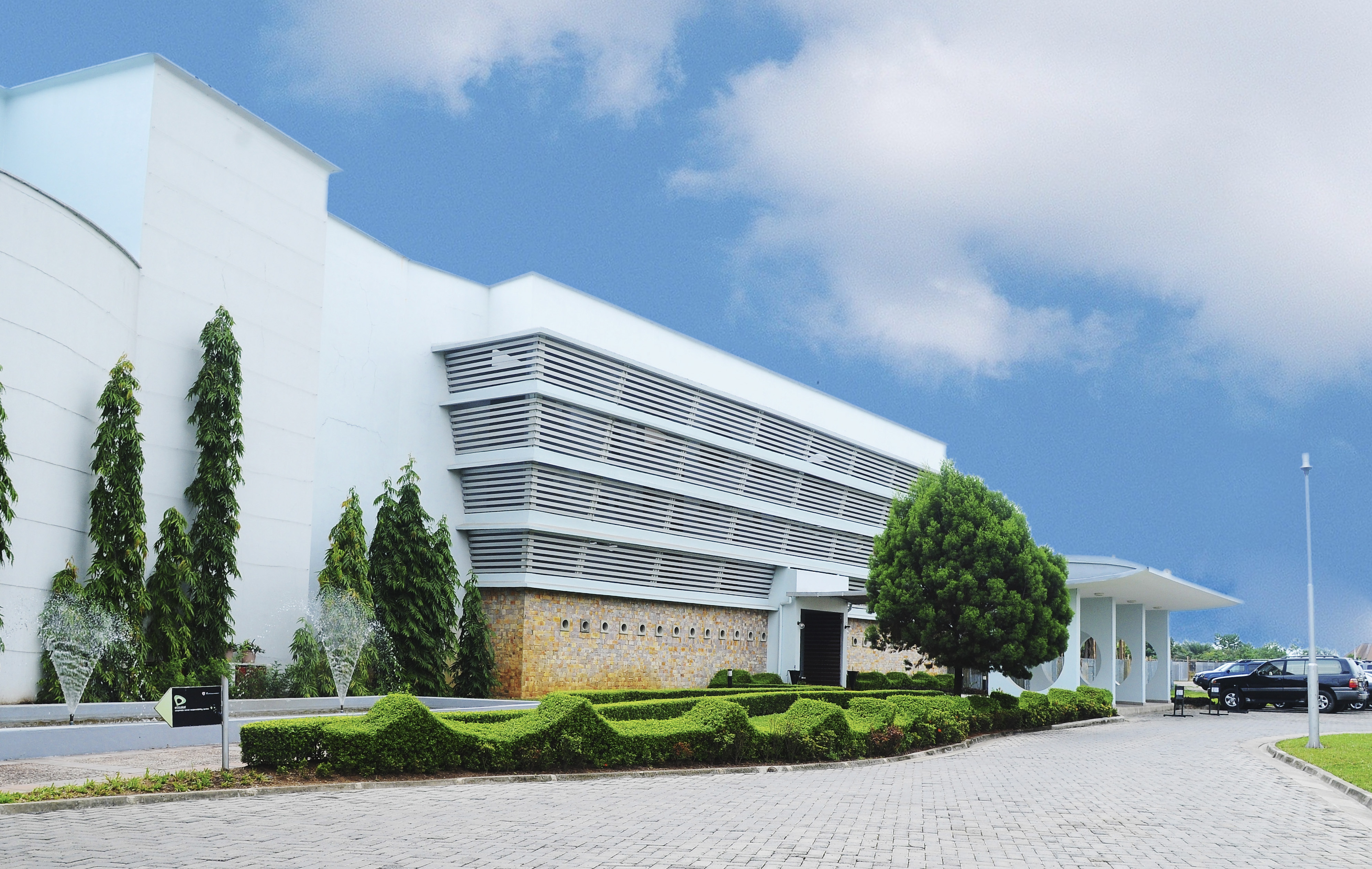 An entrance into Lagos Business School showing part of the car park